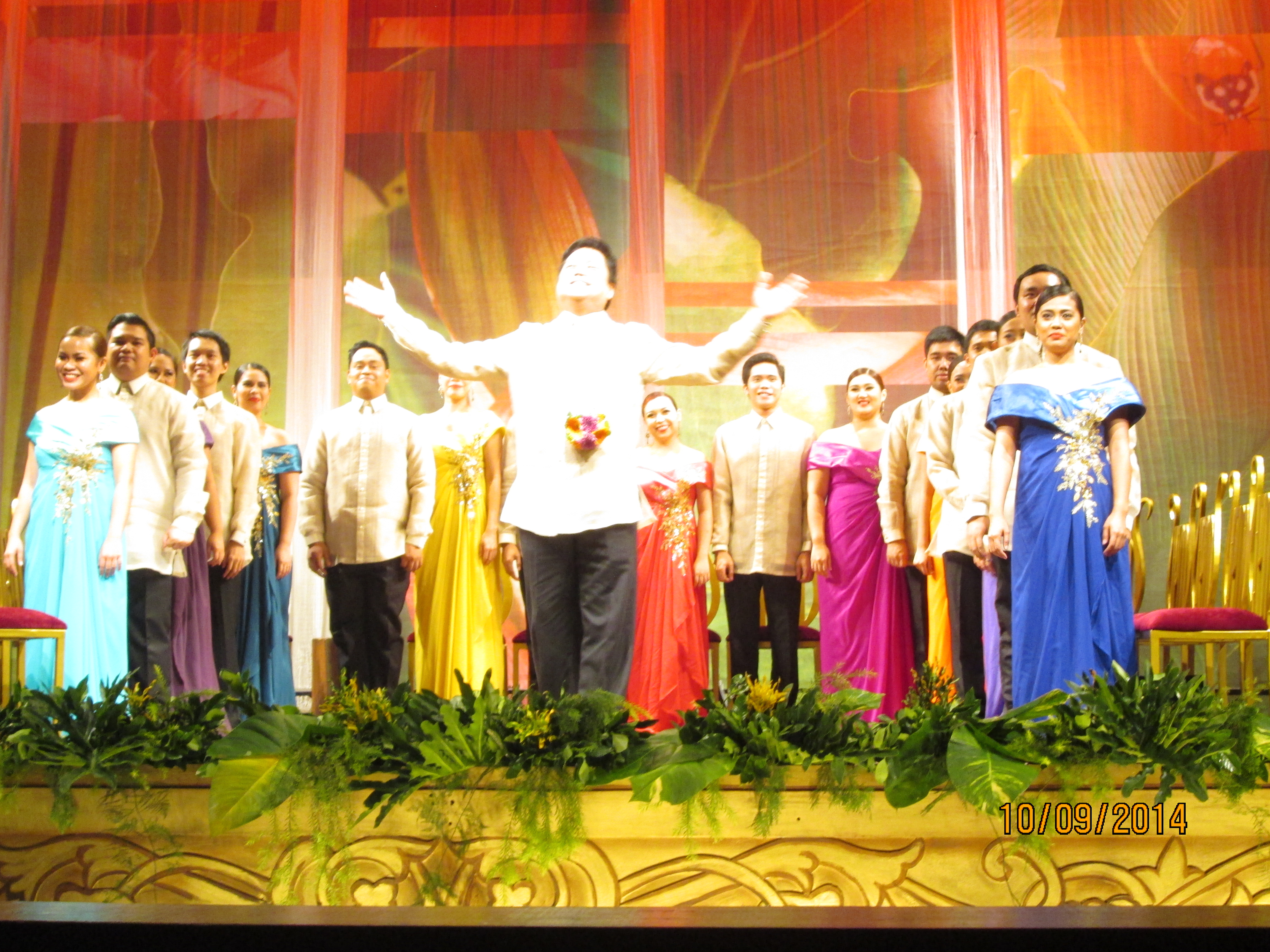 I Picture I took during the Philippine Madrigal Singers PANORAMA concert at UP Diliman, Oct. 9, 2014